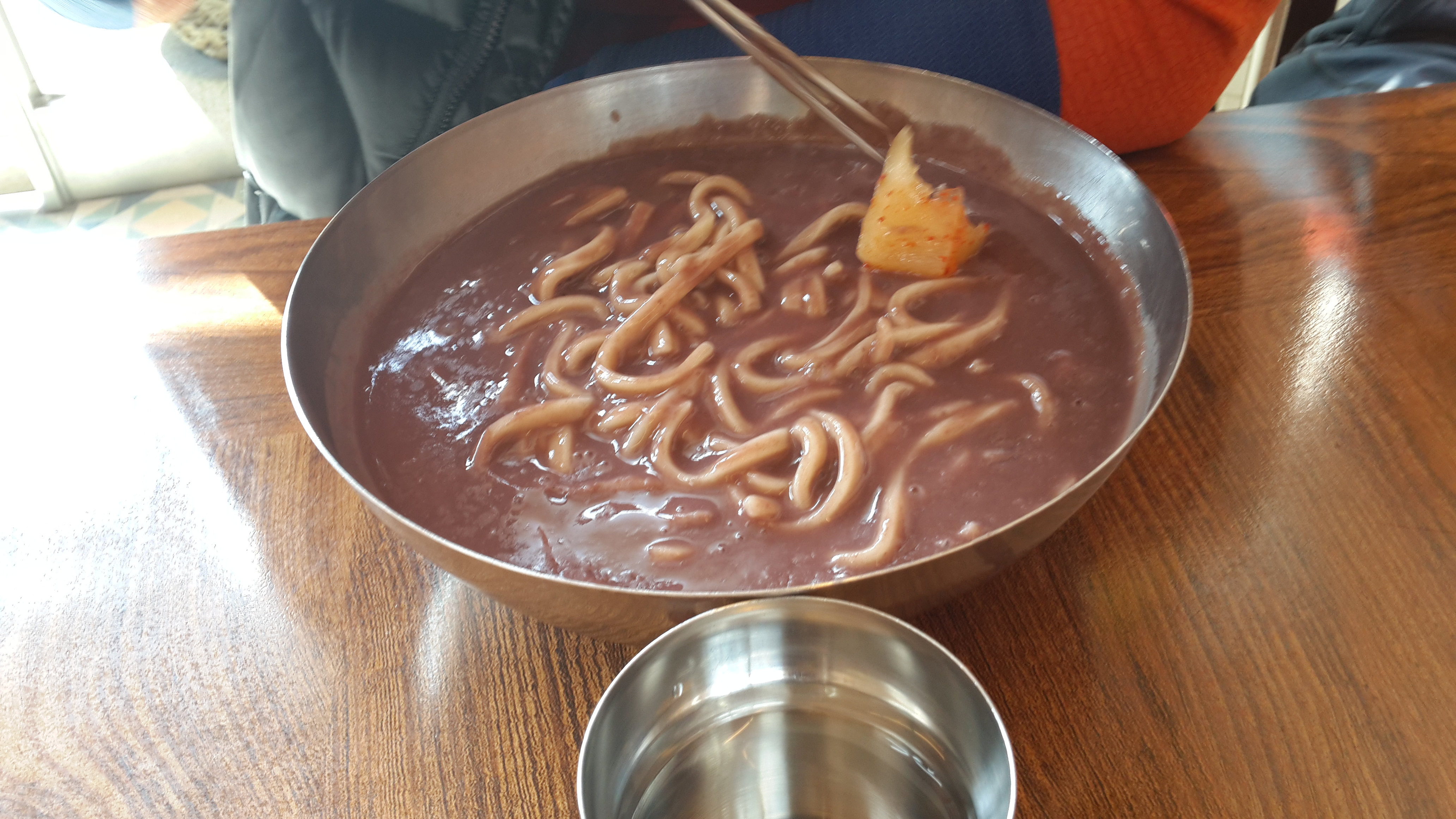 A Korean red bean noodles, pat-kal-guksu (팥칼국수) which was steamed in the base of red beans. From the ancient time, the red bean has the meaning of expelling wicked spirits or bad luck.